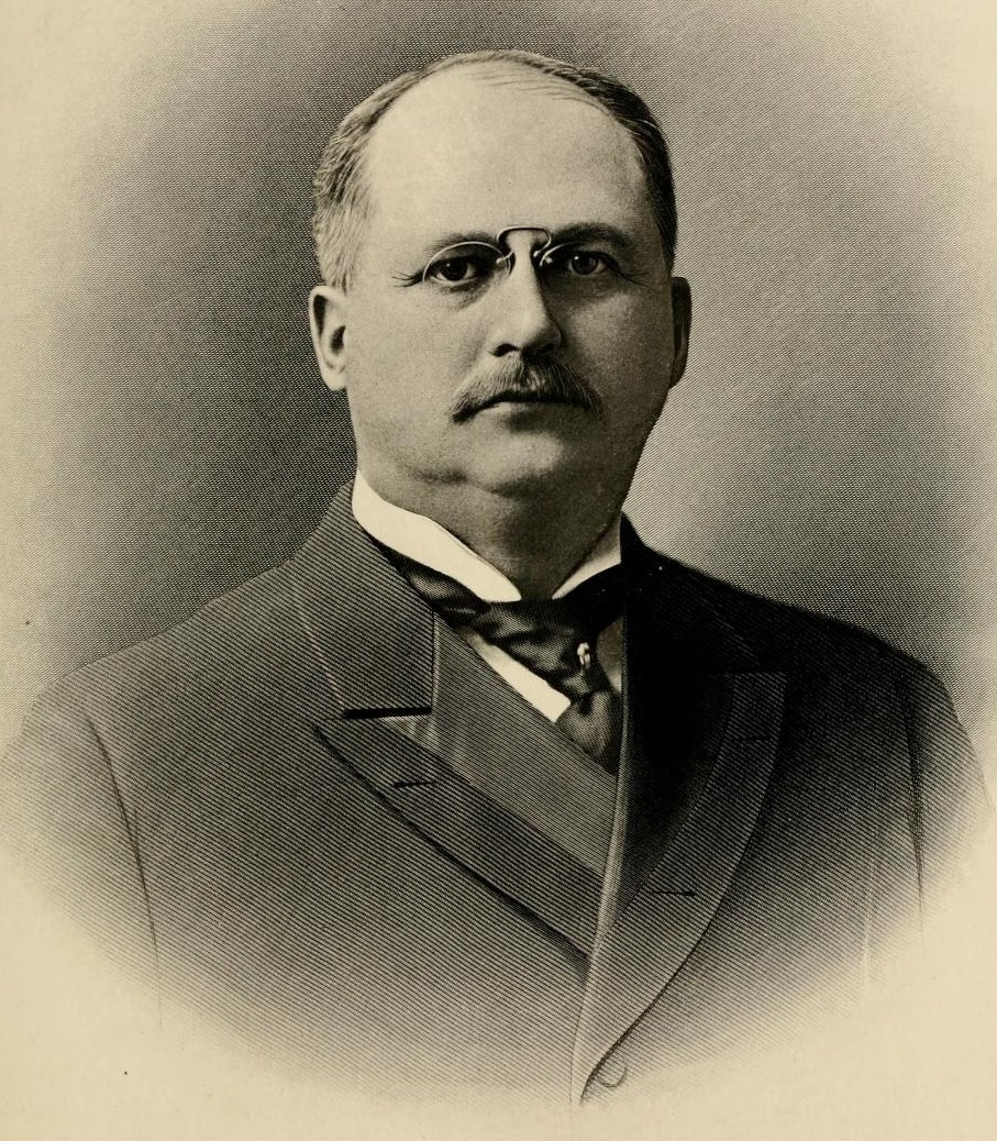 Rollin S. Woodruff (Connecticut Governor)